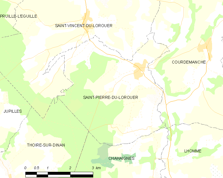 Map of French municipality